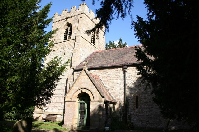 St.Nicholas' church, Hockerton St.Nicholas' church has Norman origins, the upper part of the tower is 14th century, so the lower parts must be earlier.